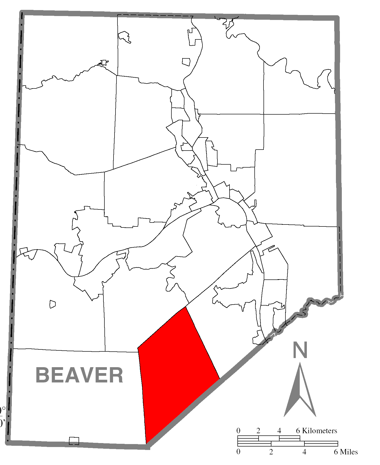 A map of Beaver County showing Independence Township, Pennsylvania (alternate) highlighted on the map.